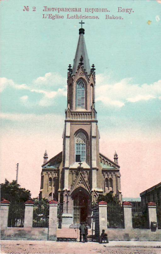 Lutheran Church in Baku on old postcard